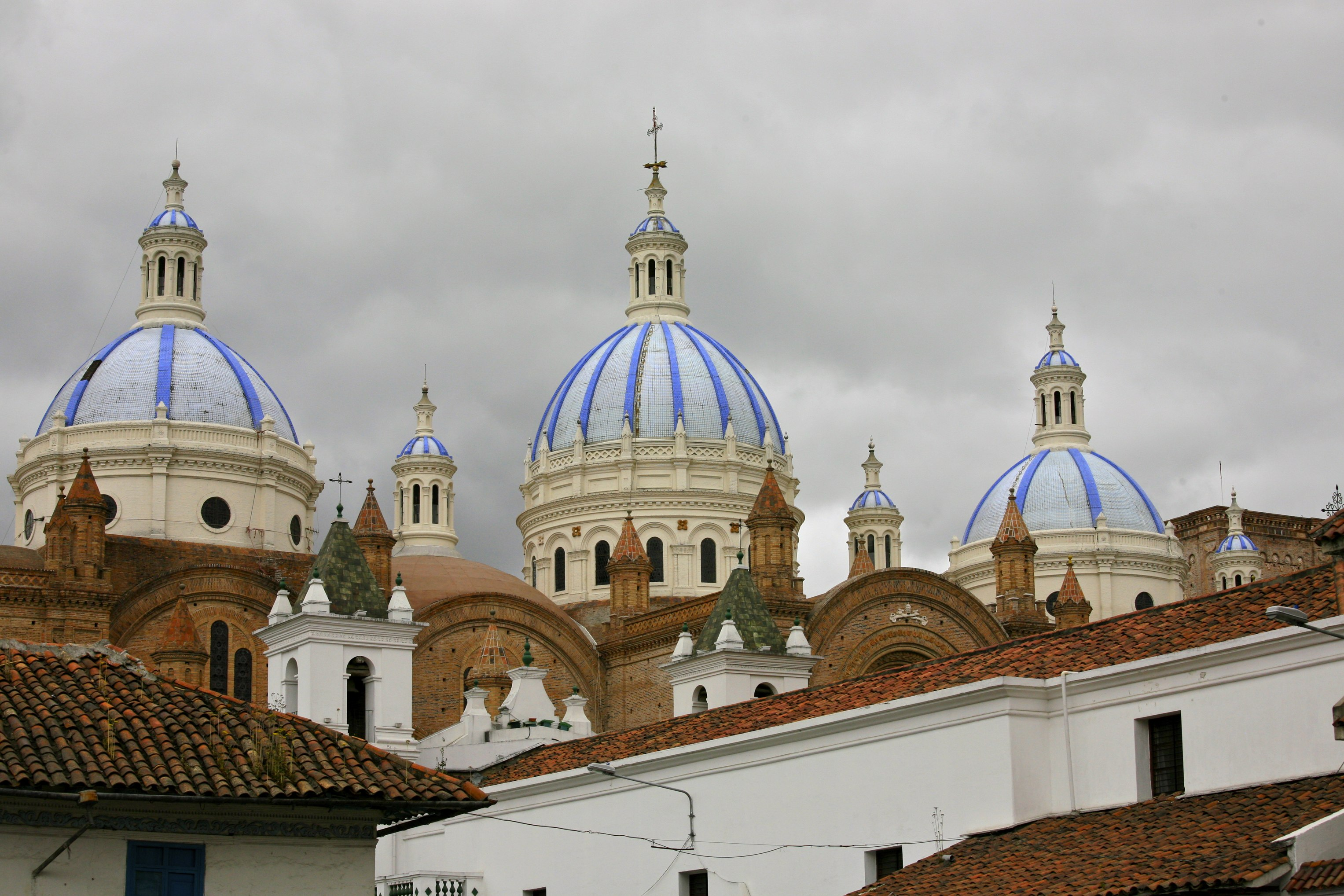 Description Domes of the New Cathedral in Cuenca, Ecuador Date29 September 2009, 02:42SourceCatedral de la Inmaculada Concepcion, Cuenca, EcuadorAuthorAlex Proimos from Sydney, Australia Domes of the New Cathedral in Cuenca, Ecuador